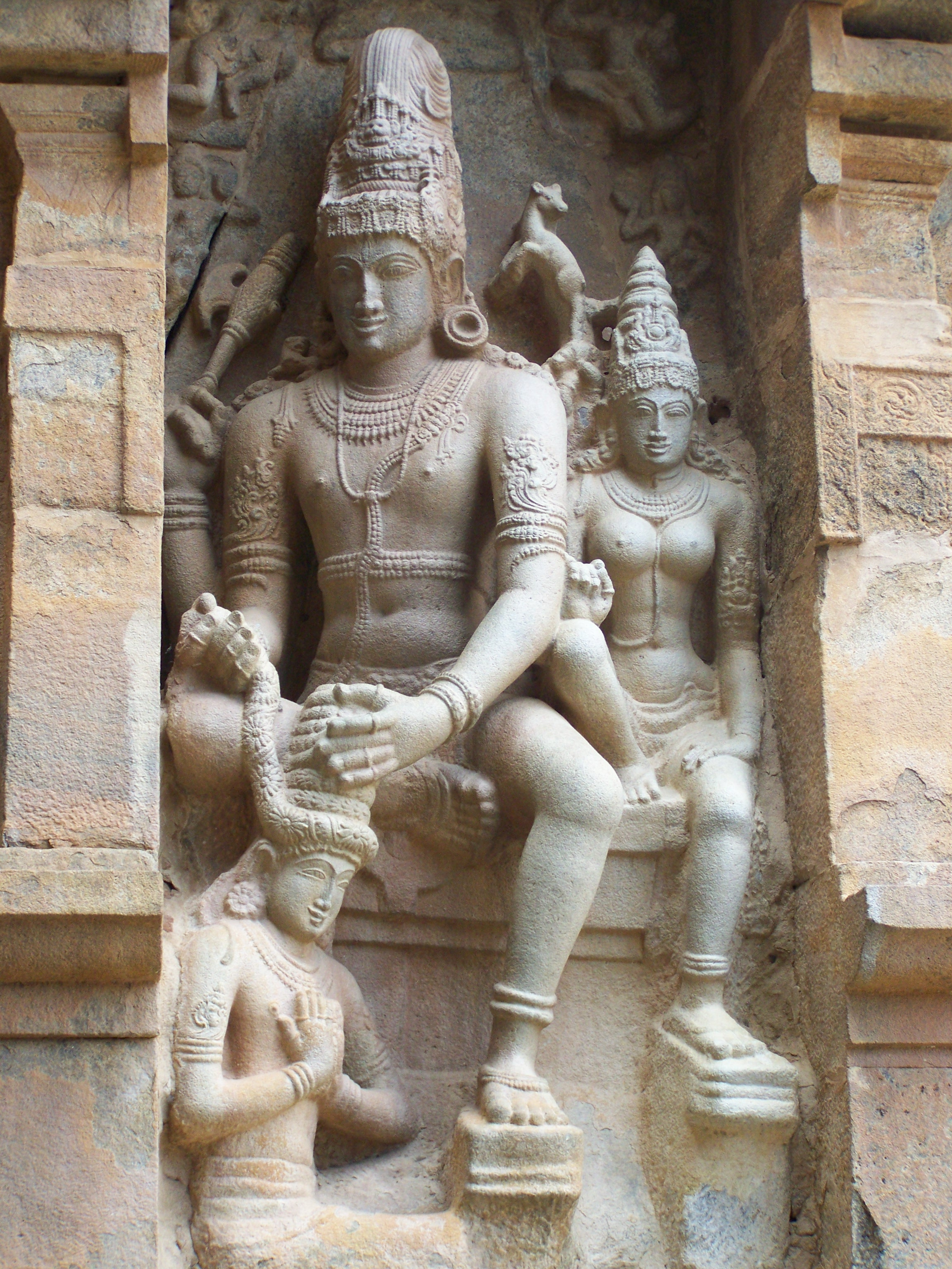 North side sculpture of temple